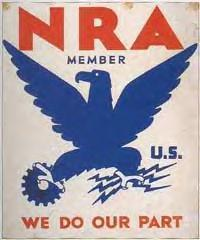 NRA (National Recovery Administration) member: We Do Our Part